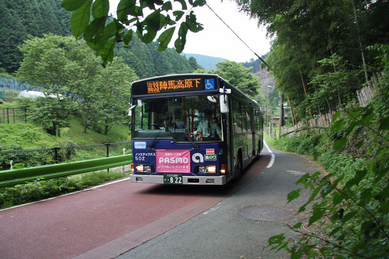 Tama Bus's route bus (Car No.TD20502 / Hino Rainbow PK-HR7JPAE / J-BUS body) at Shimo-Ange, Hachioji, Tokyo, Japan.